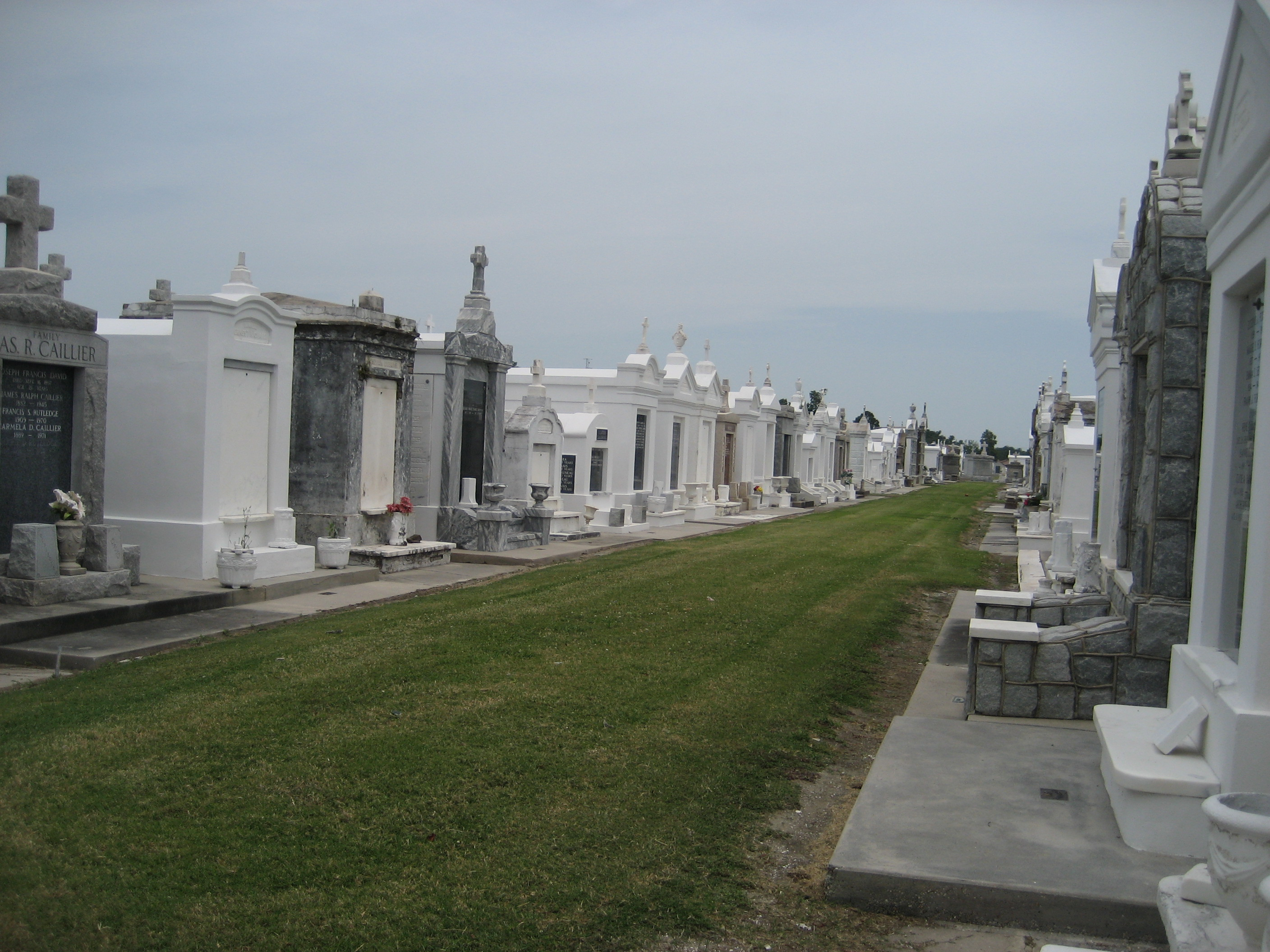 St. Louis Cemetery #3, New Orleans